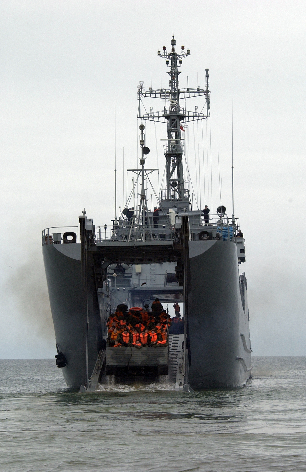 Ustka, Poland (Jun. 10, 2004) - A Polish amphibious vehicle containing U.S. Marine Reservists assigned to Bravo Company, 1st Battalion, 24 Marine Division, embarks the Polish Lublin-class minelayer ORP Poznan, during a beach assault exercise. BALTOPS is an individual combined maritime and land exercise in the Baltic Sea, conducted "in the spirit of" Partnership For Peace (PFP). The operation runs from 07-19 June 2004 and includes NATO and non-NATO participants. The mission of BALTOPS 2004 is to promote mutual understanding, confidence, cooperation, and interoperability among forces and personnel of participating nations and support national unit/staff training objectives through a series of robust training exercises. U.S. Navy photo by Photographer's Mate 2nd Class George Sisting (RELEASED)